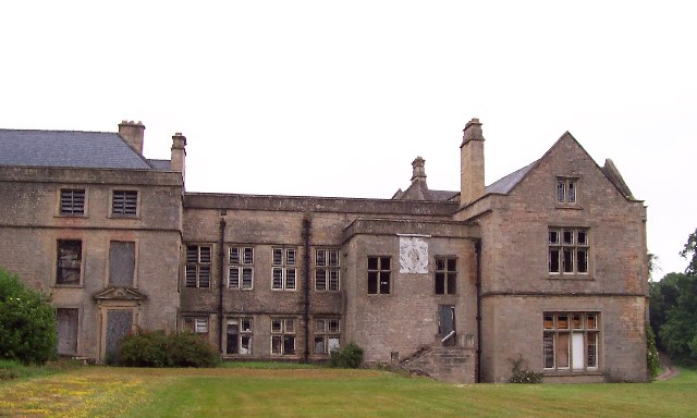 Annesley Hall. A Grade II listed building and reputed to be one of the most haunted houses in England. Now sadly in need of restoration, Annesley Hall was the home of Byron's boyhood sweetheart, Mary Chaworth. Mary did not return his love and married John Musters, the squire of Colwick Hall, before Byron went to Cambridge.